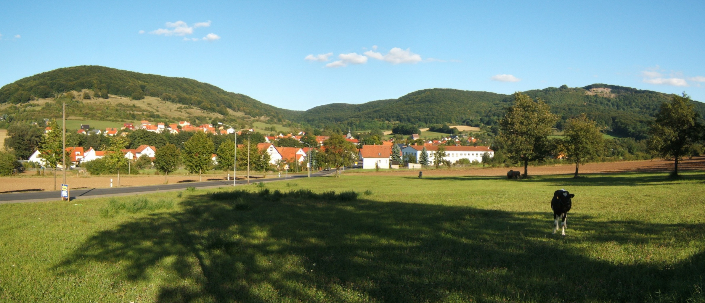 Fischbach/Rhön, Thuringia, Germany